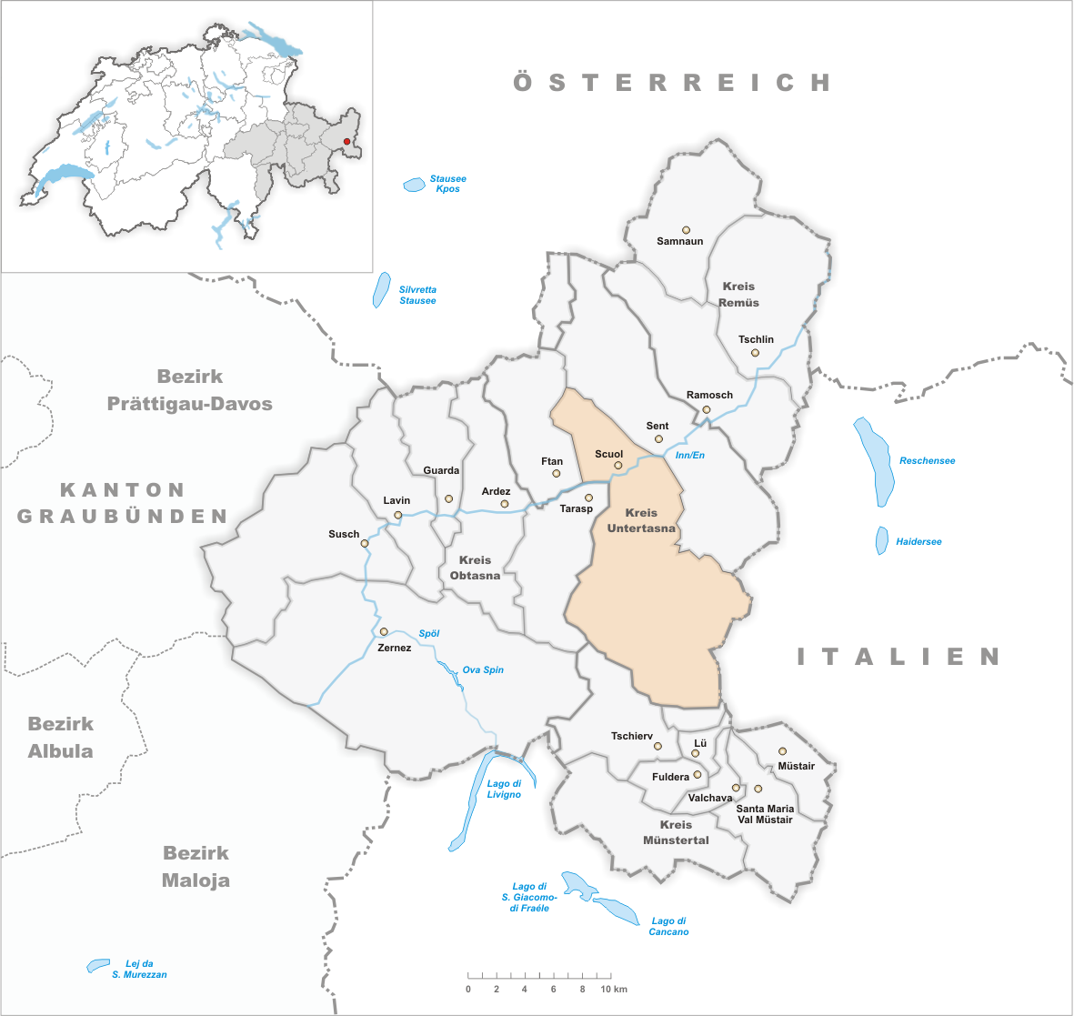 Municipality Scuol